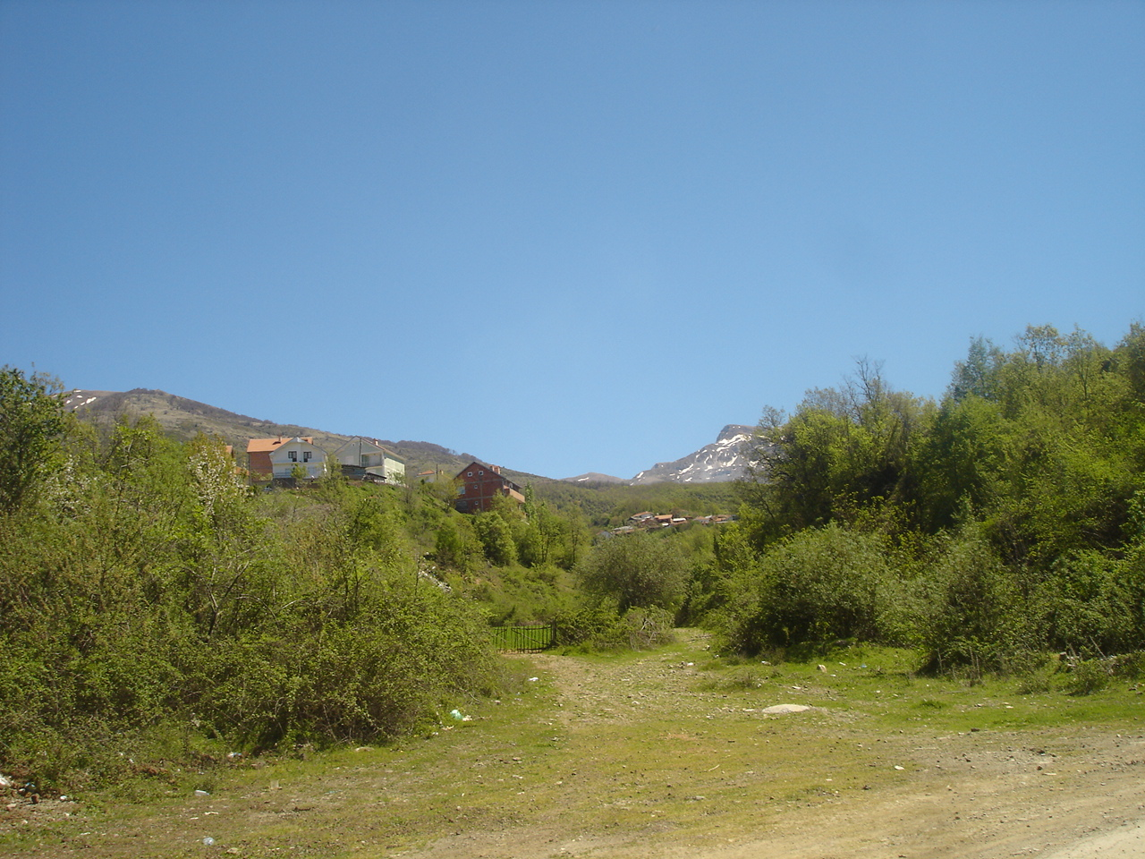 village of Žitineni in Centar Župa Municipality, near Debar, Macedonia